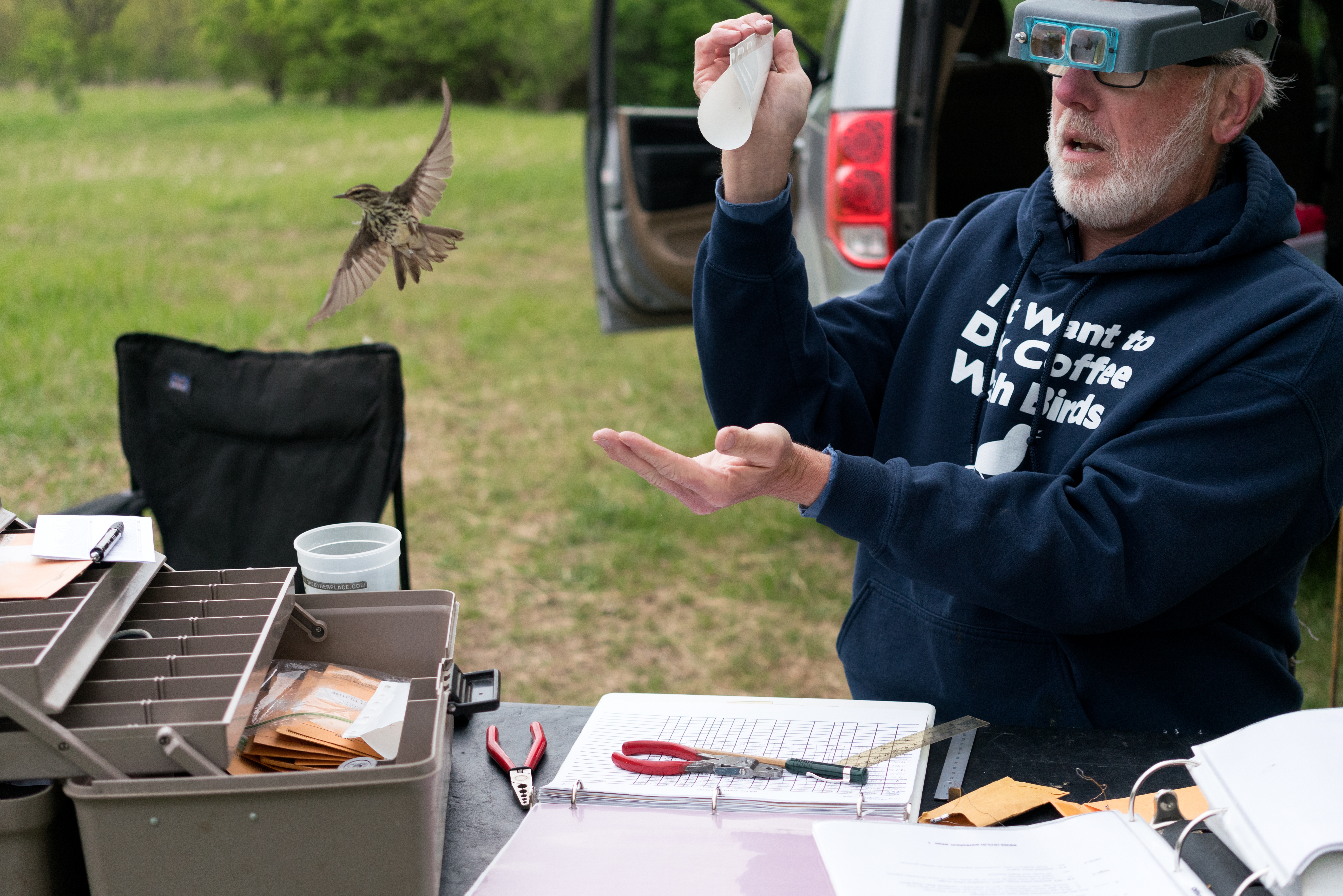 A researcher releases a newly banded Northern waterthrush at a bird banding station at Murphy-Hanrehan Park Reserve in Savage, Minnesota. The bird was captured with a mist net.